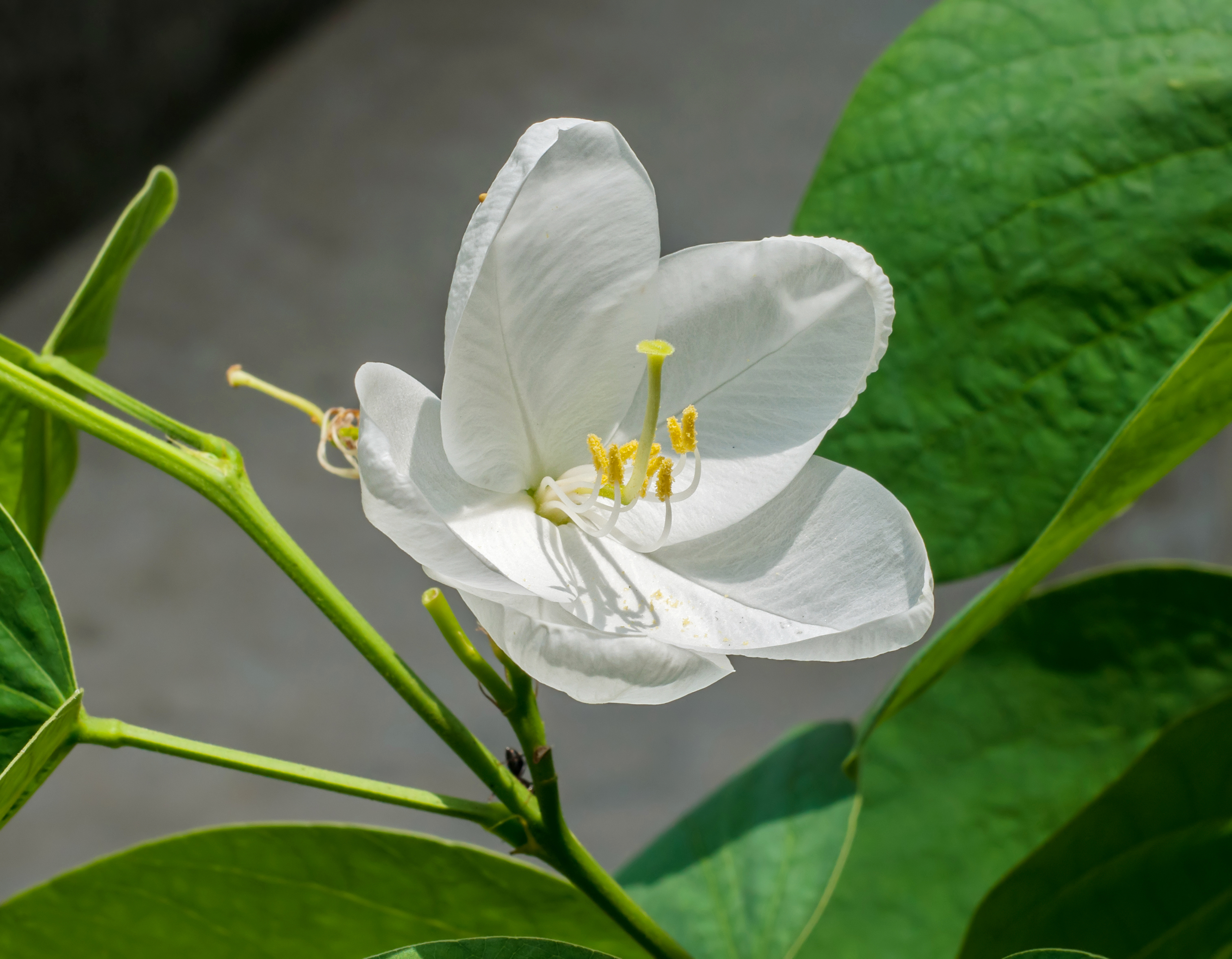 Bauhinia acuminata flower.